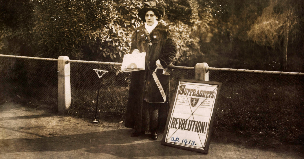 Princess Sophia Duleep Singh selling subscriptions for the Suffragette newspaper outside Hampton Court in London, April 1913. The British Library dates this image to 1910.